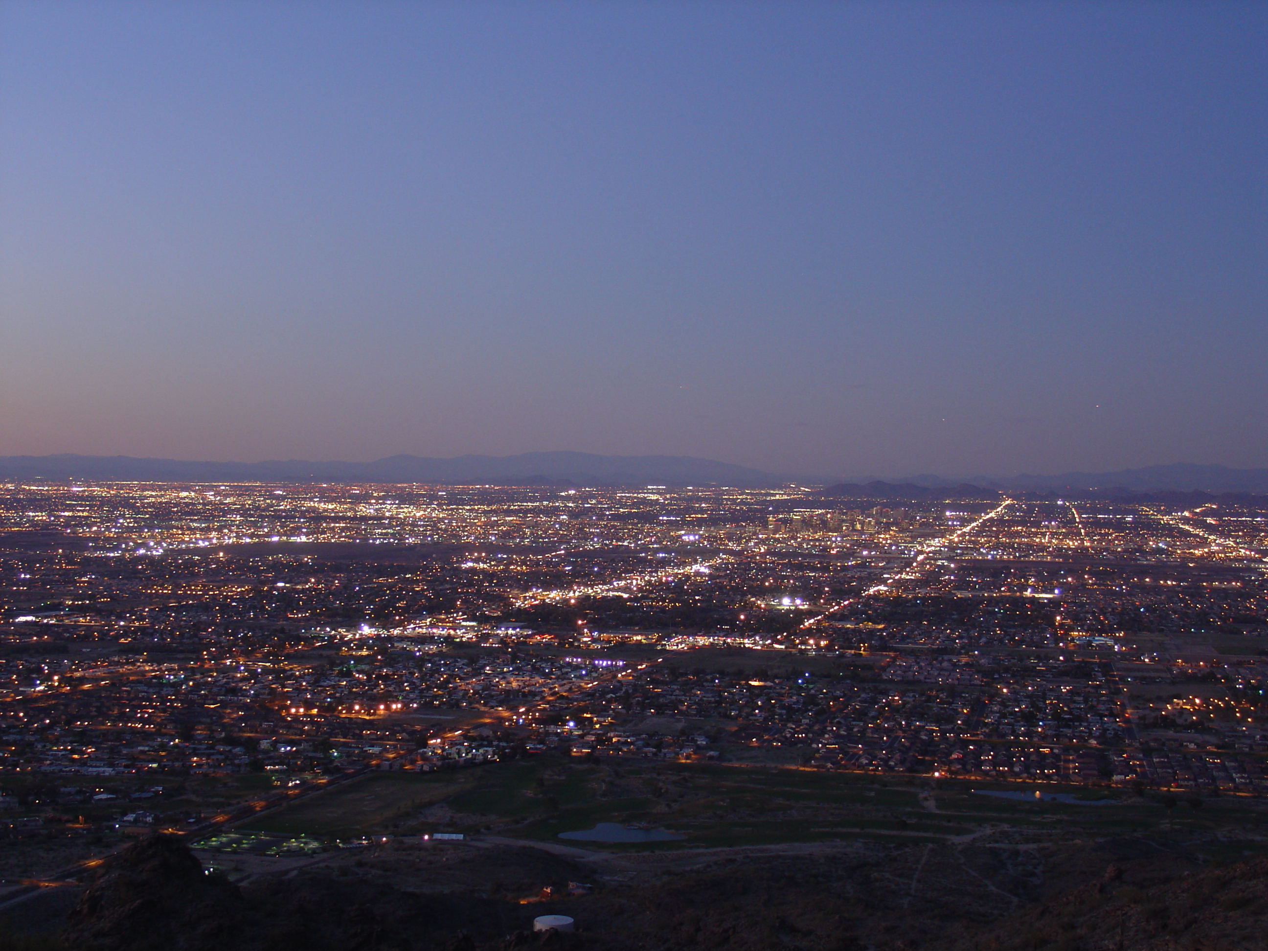 Description: Twilight over Phoenix from South Mountain Park. Creator/Photographer: User:Solarapex Uploader: User:Solarapex Date: 30 November 2004 Other Versions: See WUnderground galleries License status: Creative Commons Attribution-Sharealike Signature: Solarapex 16:10, 19 May 2007 (UTC)